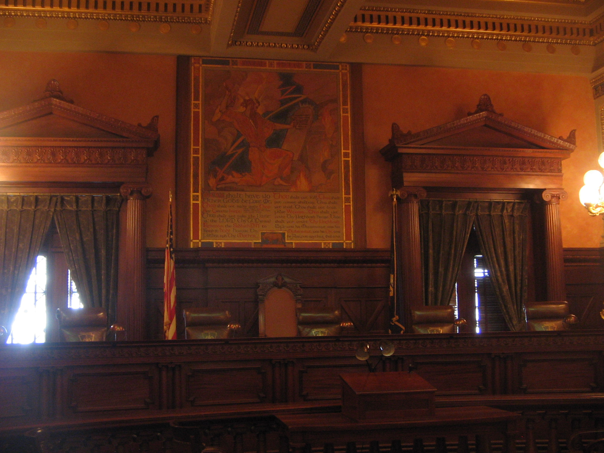 Five of seven judges seats in the Supreme Court chamber in the Pennsylvania State Capitol in Harrisburg, Pennsylvania, USA